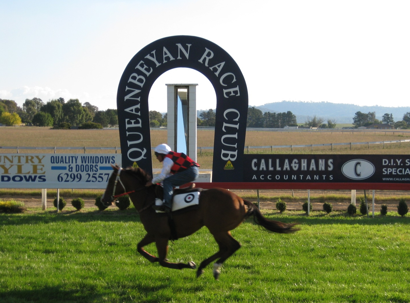 Summary: Takeover Target, a thoroughbred racehorse trained in Australia in an exhibition gallop at Queanbeyan Racecourse. Date: 17 April 2010 Source: own work Author: own work